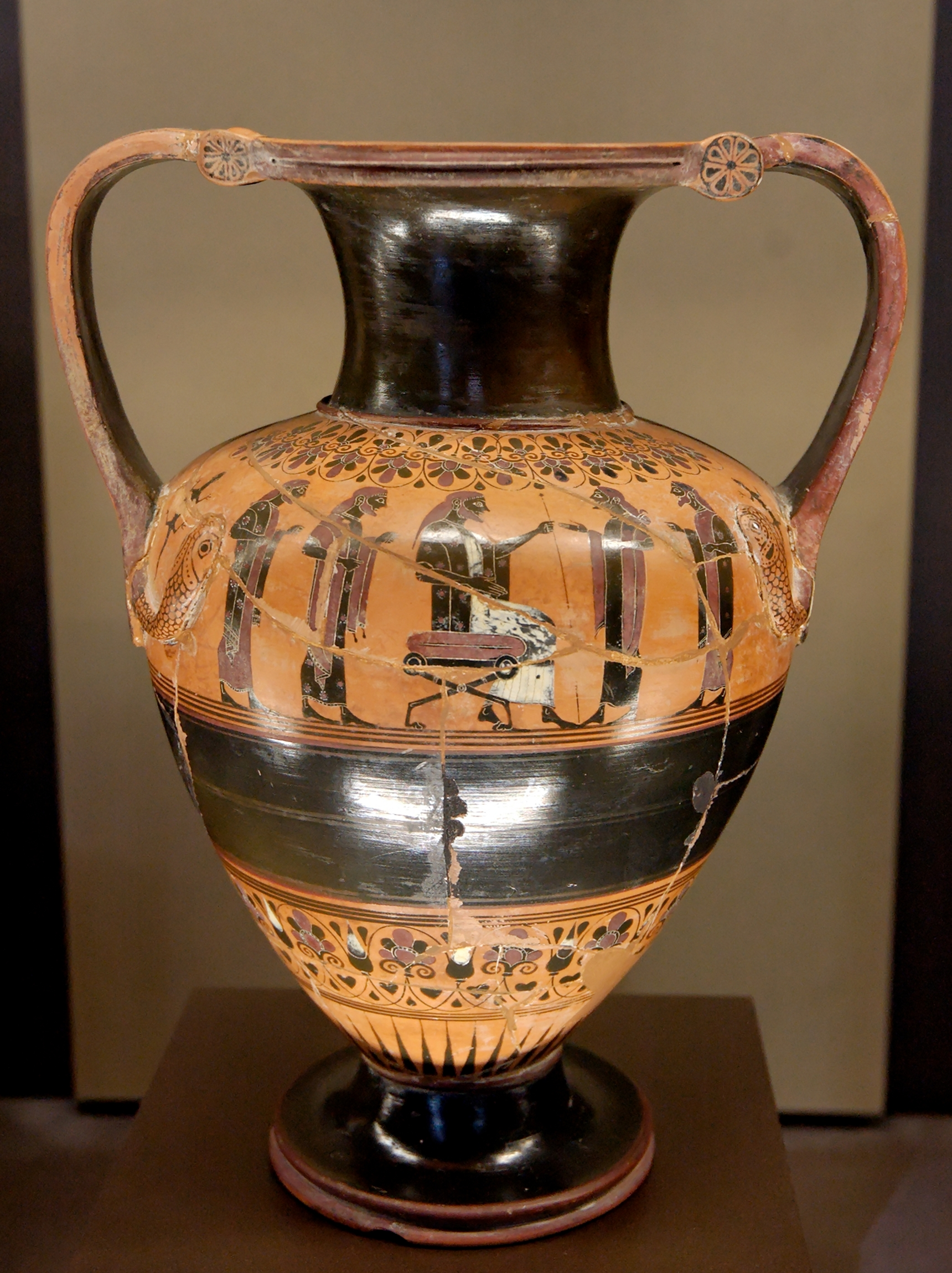 King enthroned. Side B from a black-figure Nikosthenic amphora, ca. 530 BC.